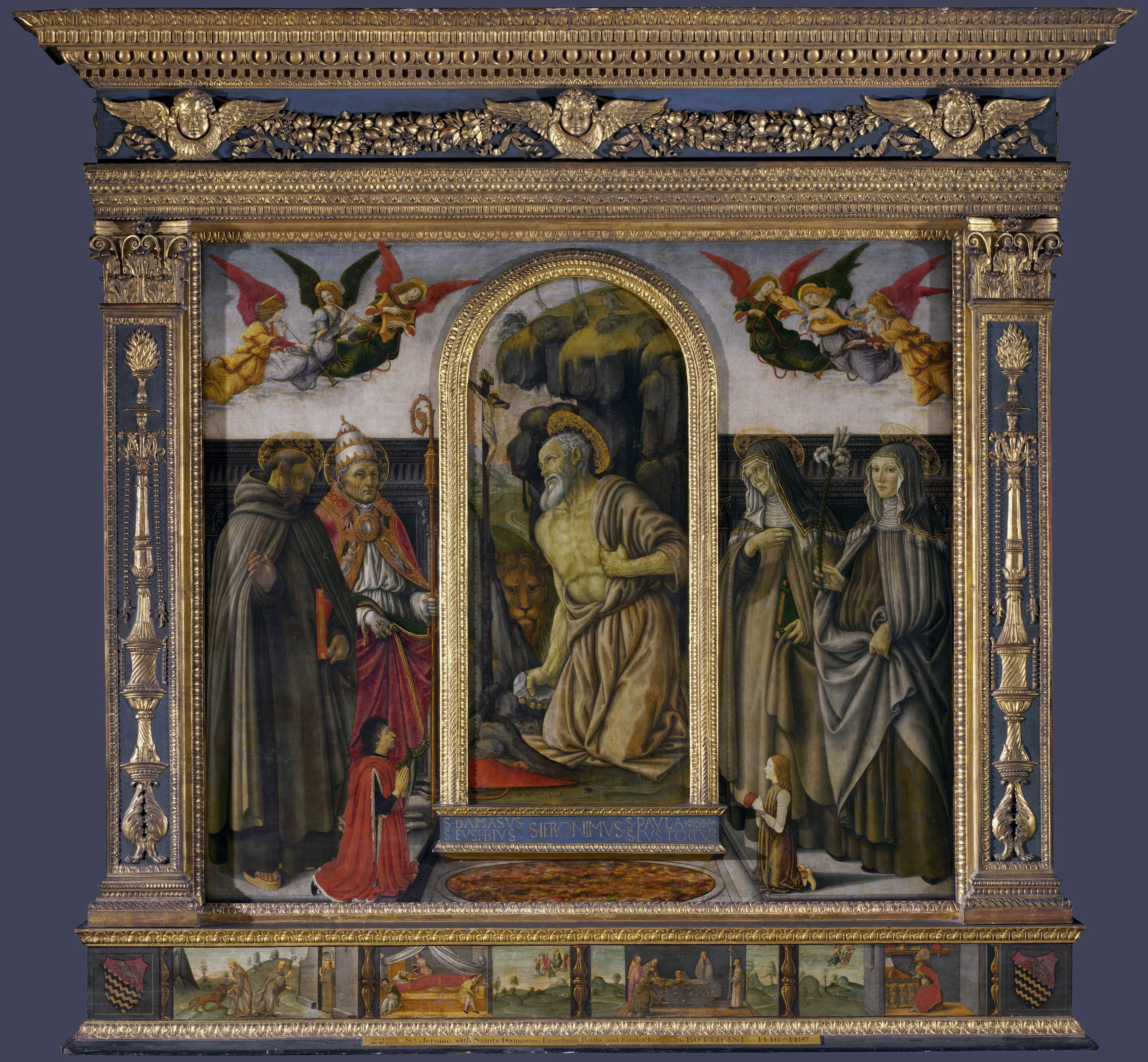 To either side are saints connected with him: Pope Damasus and Saint Eusebius on the left, and Saint Paula with a book and Saint Eustochium with a lily on the right. In the foreground, either side of the panel with Saint Jerome, two donors kneel, possibly Gerolamo di Piero di Cardinale Rucellai (died 1497?) and his son. Altarpiece complete in its original frame. The frame was extensively remade and regilded in about 1850